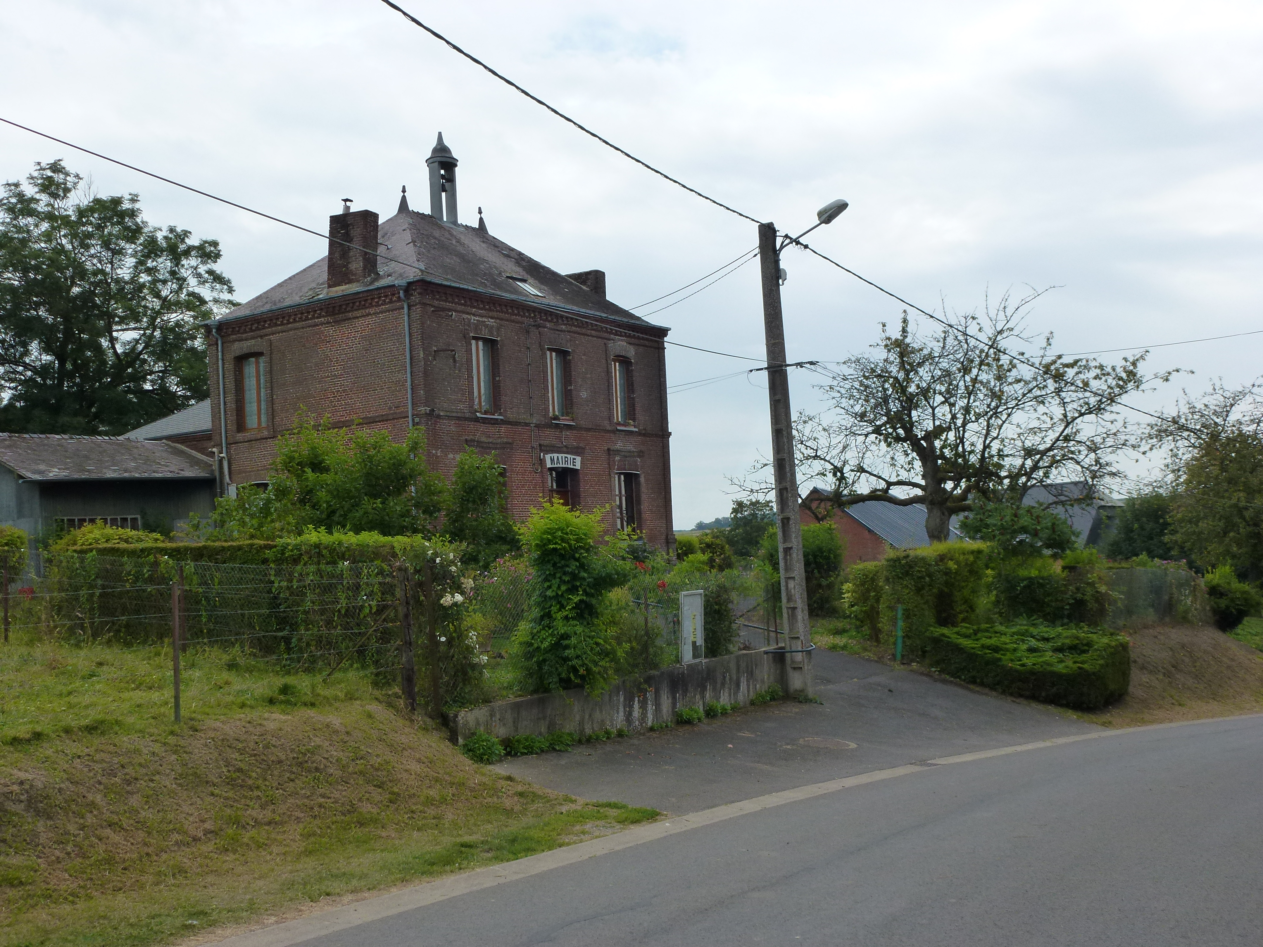 Rubigny (Ardennes) mairie